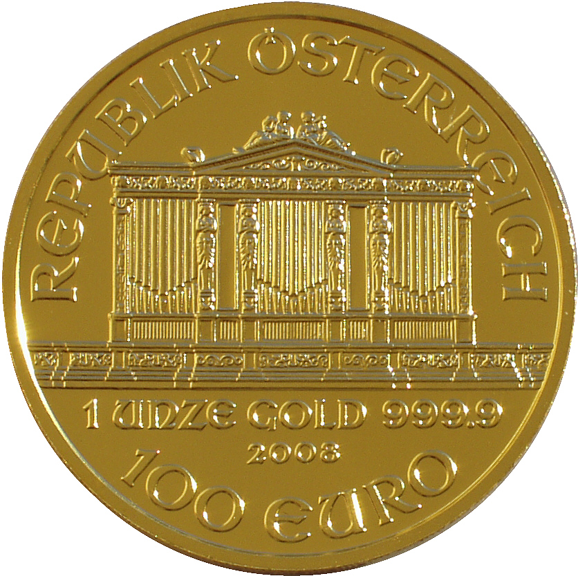 Austria 100 Euro‚ Philharmoniker, organ, 2008, 1 ounce finegold 999.9, d=37mm